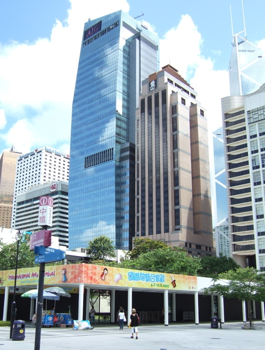 AIG Tower, Ritz Carlton, taken from Edinburgh Place. The sky was so clear even I keep thinking it was photoshopped!